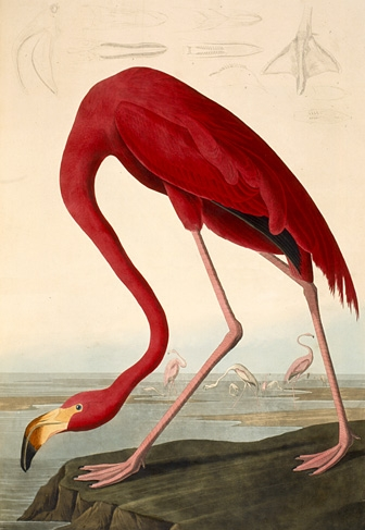 Phoenicopterus ruber, the Greater Flamingo. Drawn by John James Audubon for his book The Birds of America